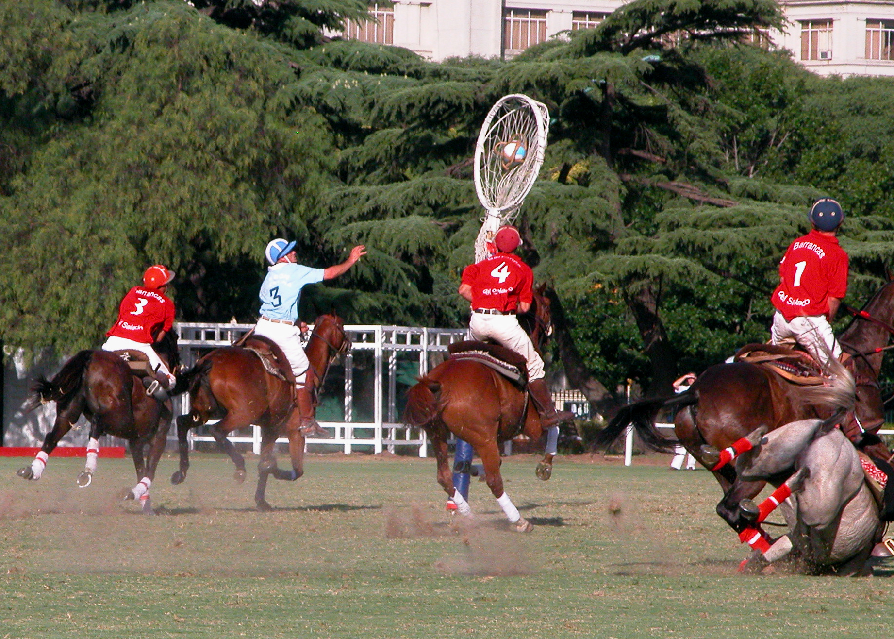 "Pato", Argentine national sport.